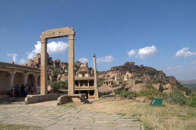 Fortress & Temples on the hill